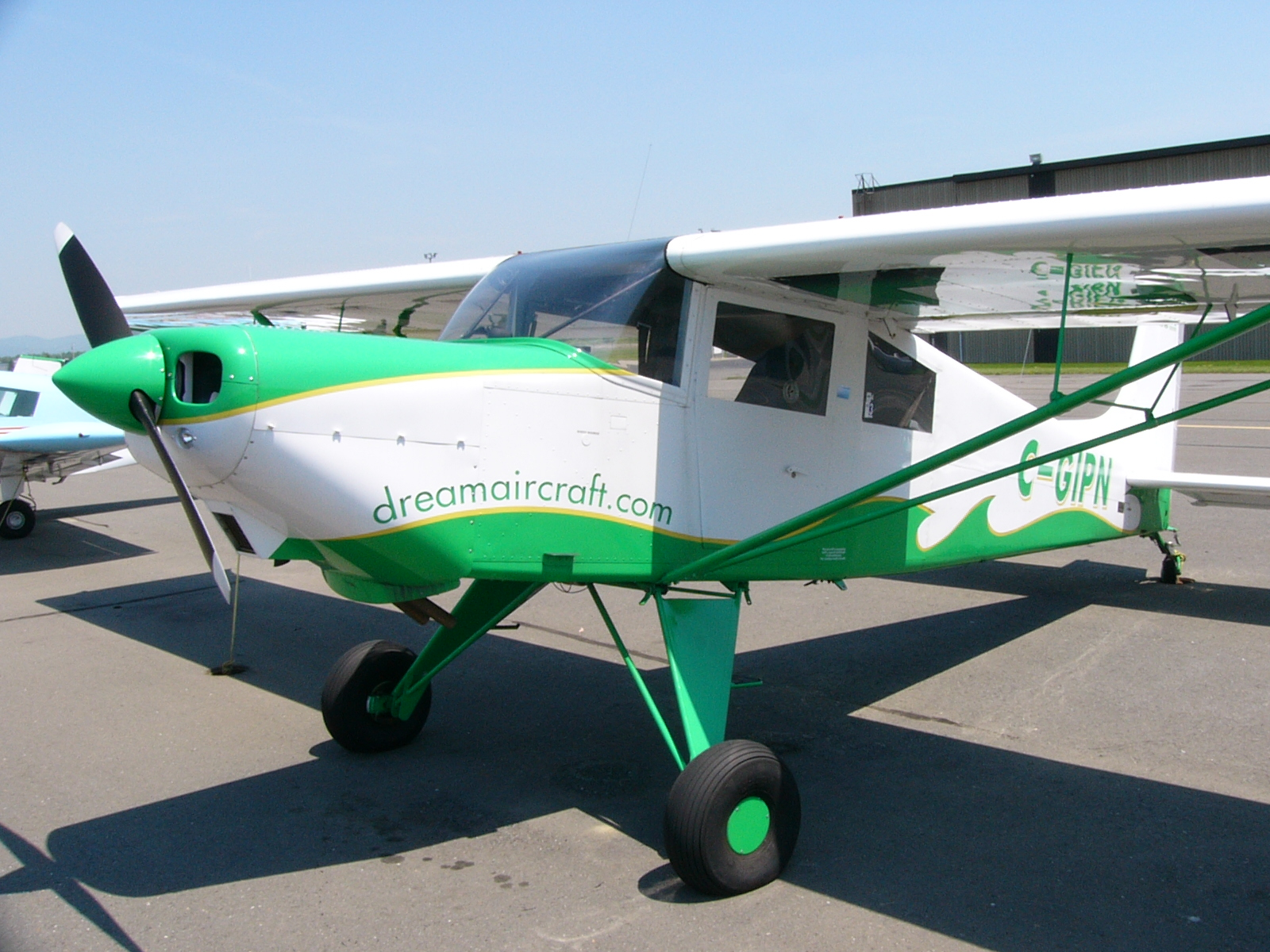 A Dream Tundra 180 at Bromont, Quebec, Canada